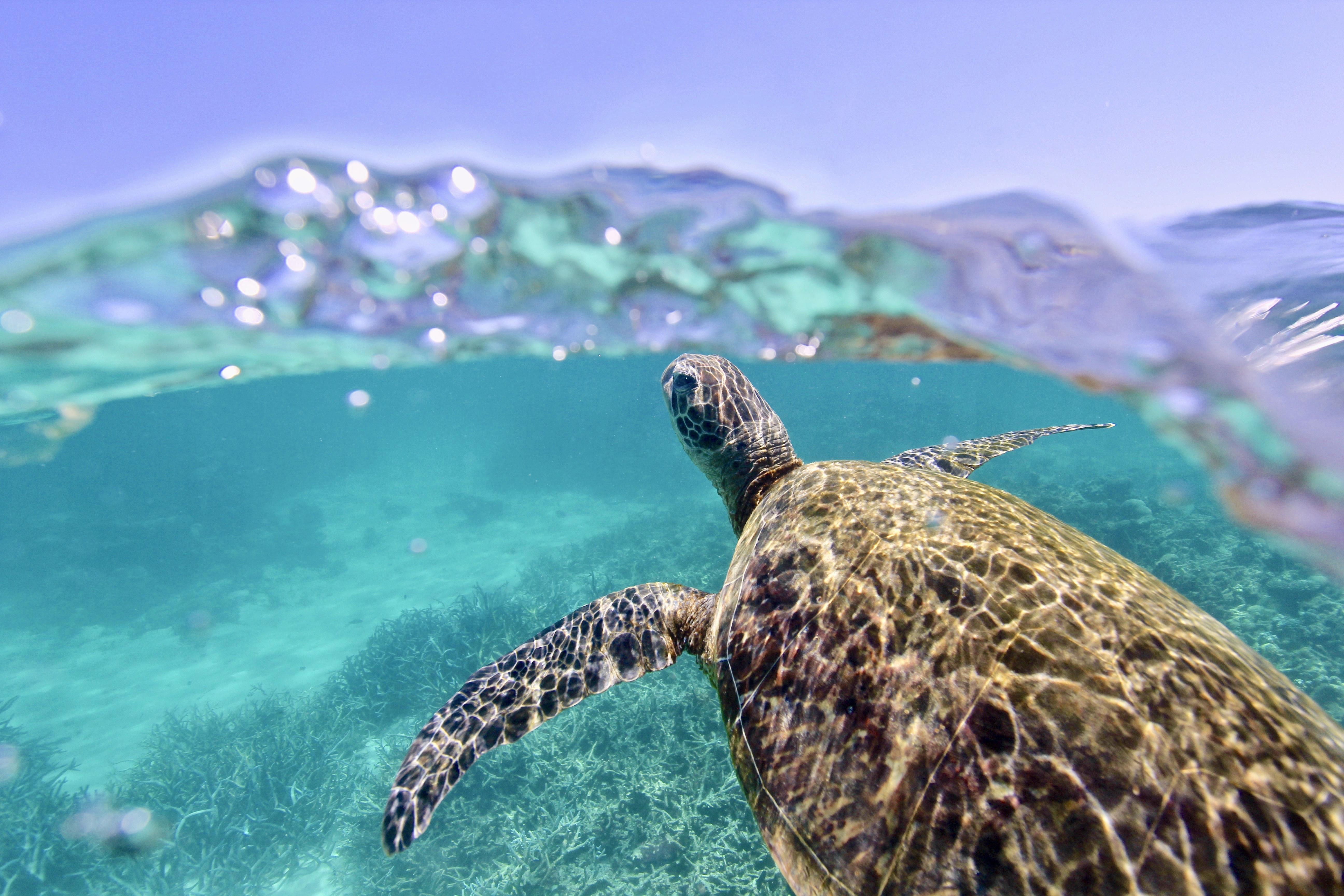 A Green Sea Turtle comes up for air on the beautiful, World Heritage Listed, Ningaloo Reef off Western Australia.